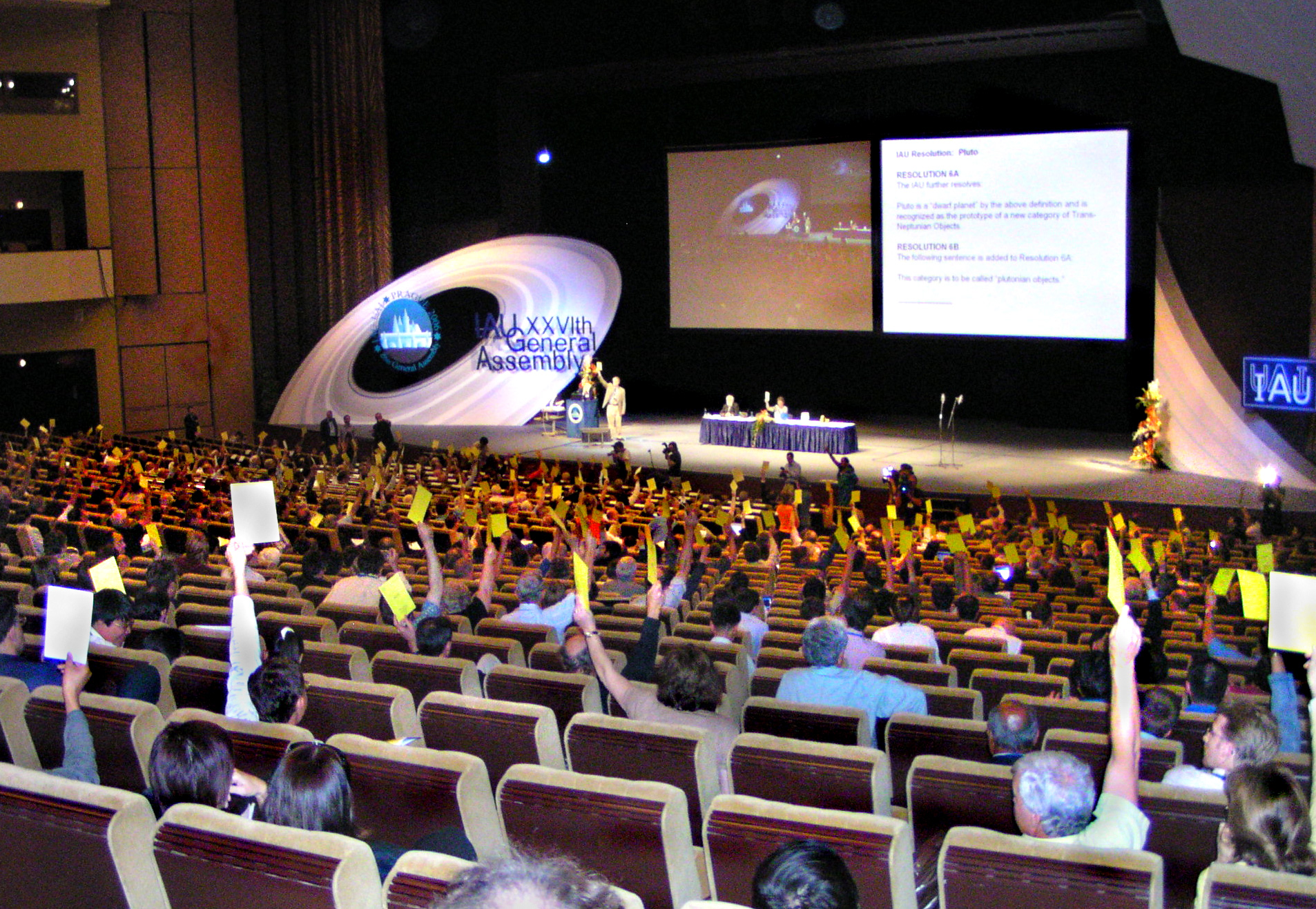 Planet voting. IAU 26th General Assembly, Prague